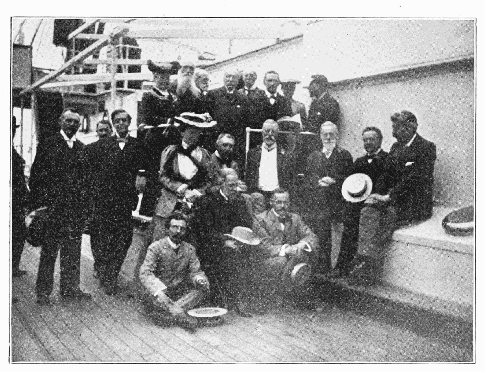 British Association members of the voyage around Africa 1905 Original caption: Some of the Members on the 'Saxon' before the ship left Southampton. In the top row, reckoning from the right, may be seen Prof, and Mrs. Herdman, Prof. Forsyth, Mr. Freshfield, Sir R. Jebb, Sir W. Wharton, Dr. Murray; in the second row, Dr. Haddon, Professor Perry, Sir W. Crookes, Sir L. Brunton, Major Macmahon, Mrs. Darwin; in the third row, the writer, Professor Darwin and Professor Sollas.